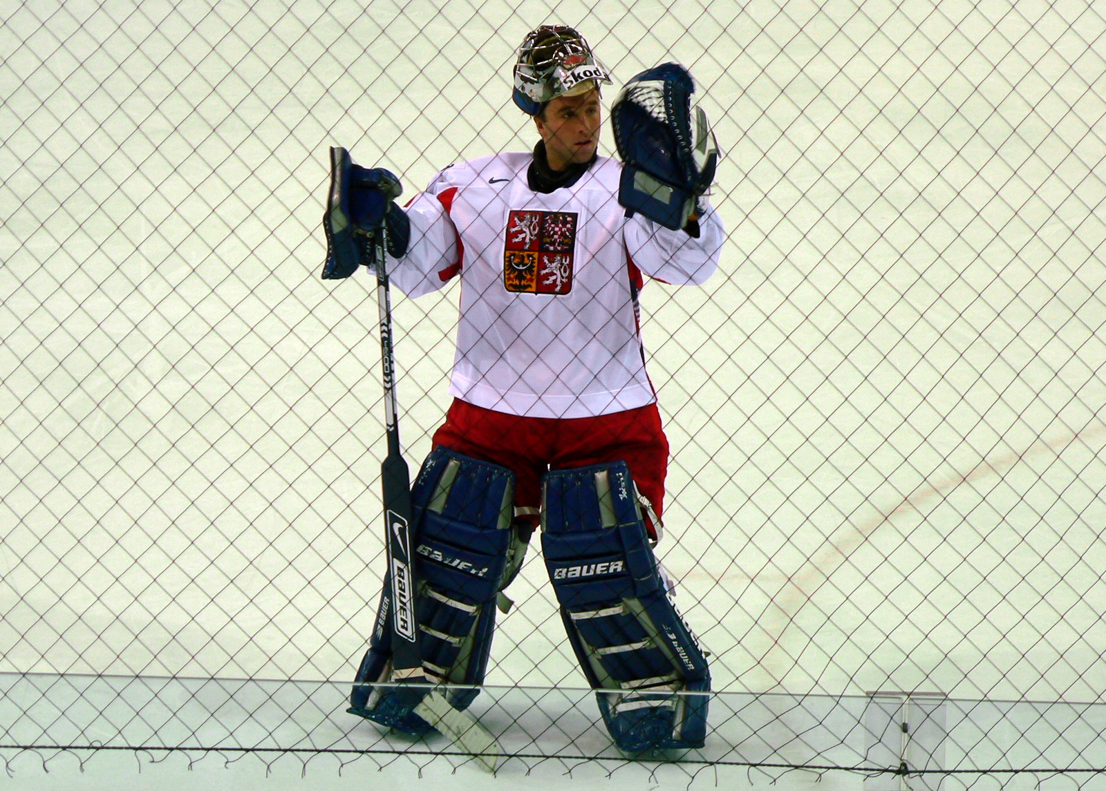 Milan Hnilička, Czech ice hockey goalkeeper during IIHF WC 2006 in Riga, game CZE-CAN.